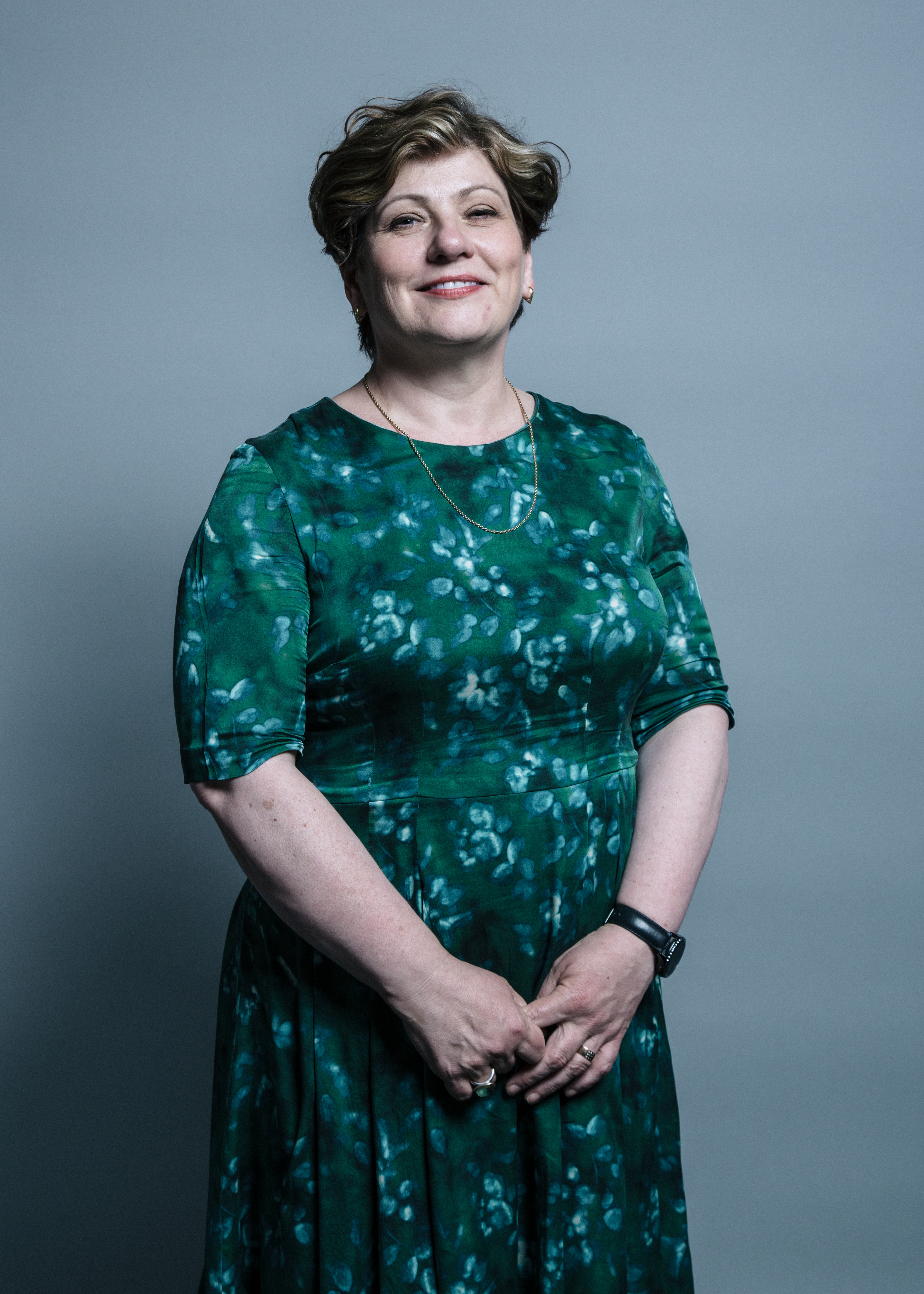 Official portrait of Emily Thornberry